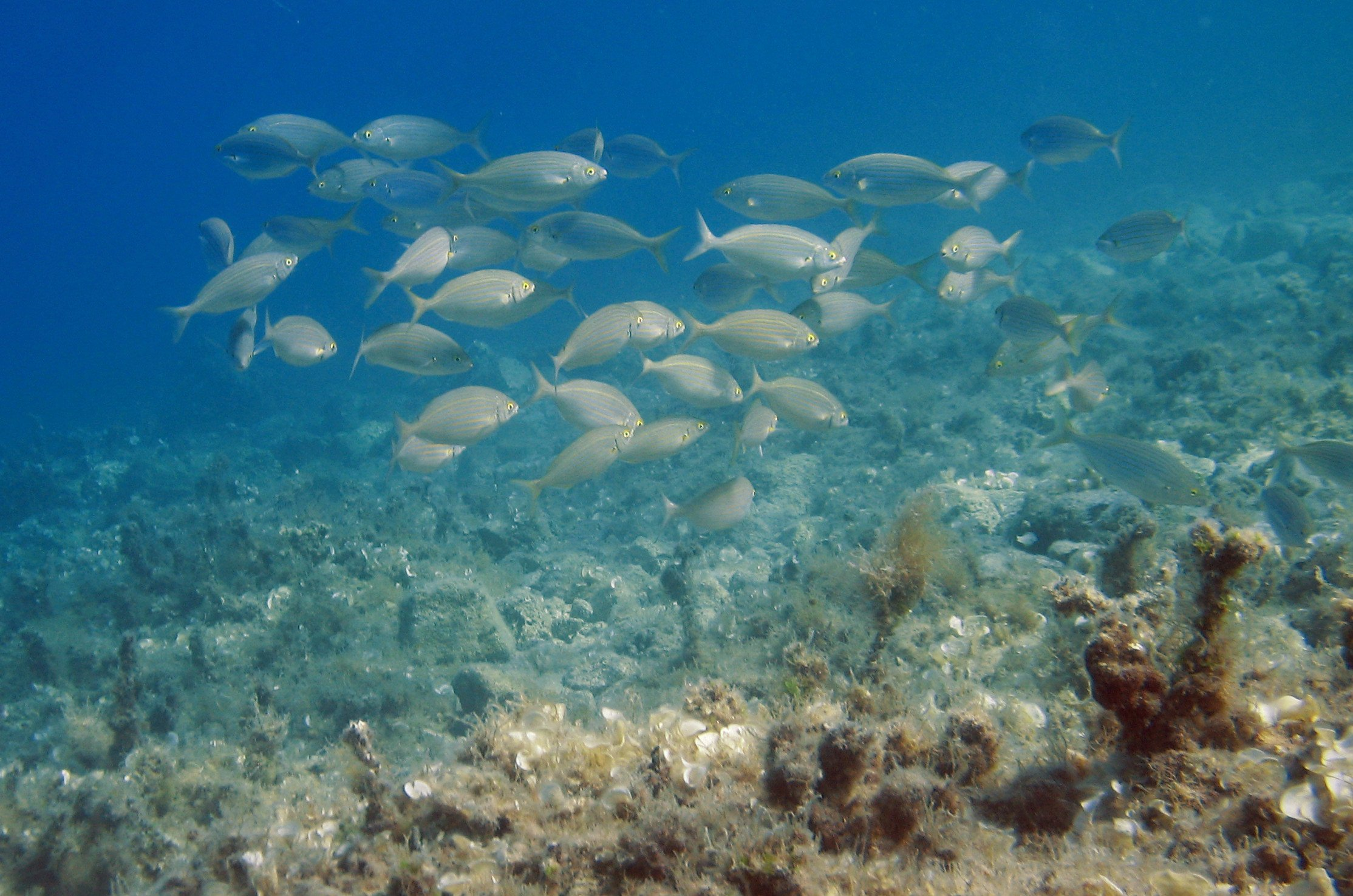 Salpa shoal near the island of Šolta, Stomorska.